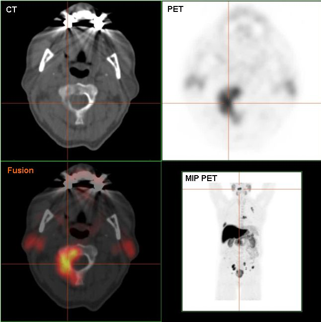 Bone metastasis of prostate cancer in F-18-Choline PET-CT Scan; equipment: GE Discovery 600